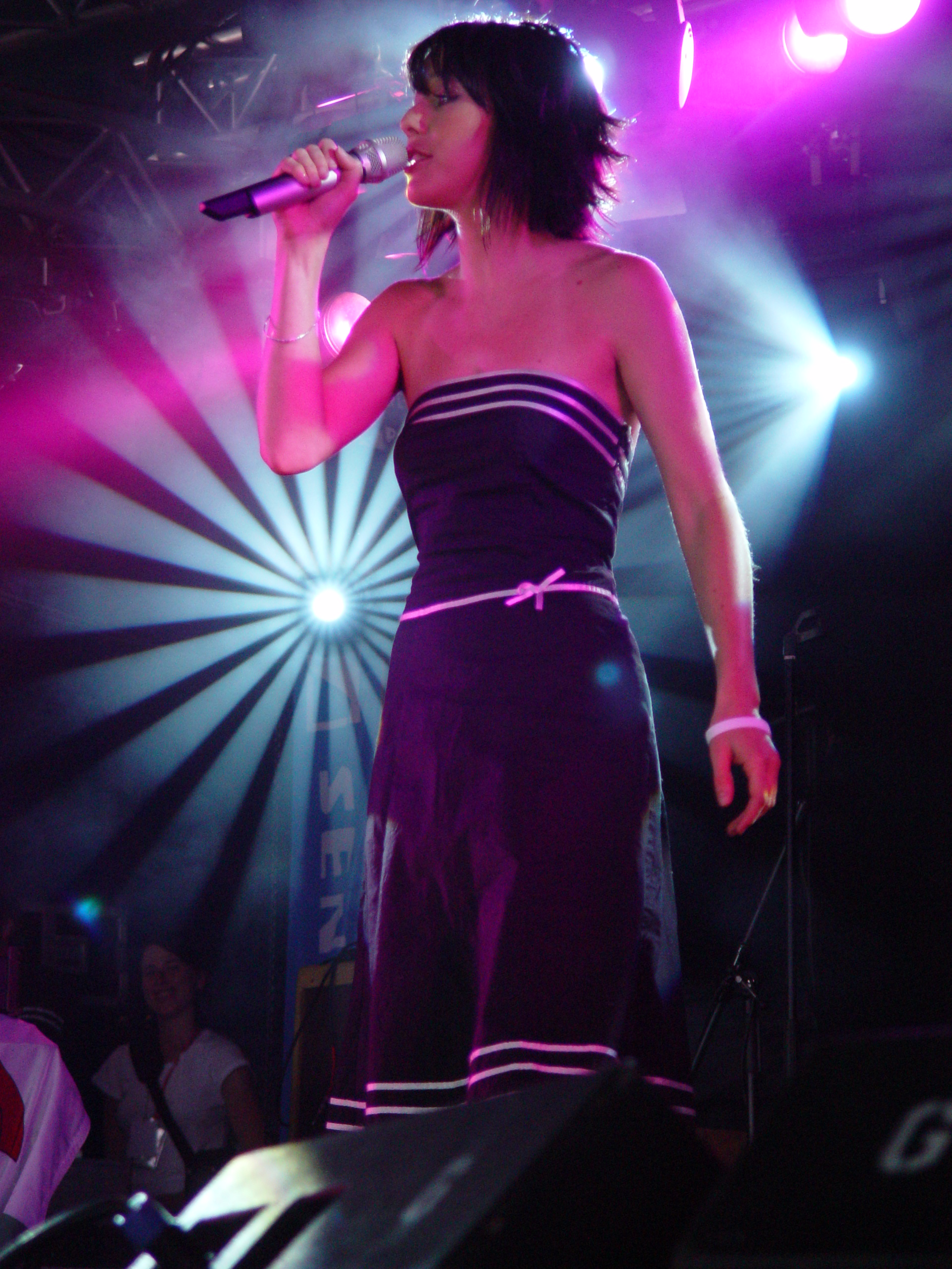 Welsh pop singer Jem singing onstage, 2005